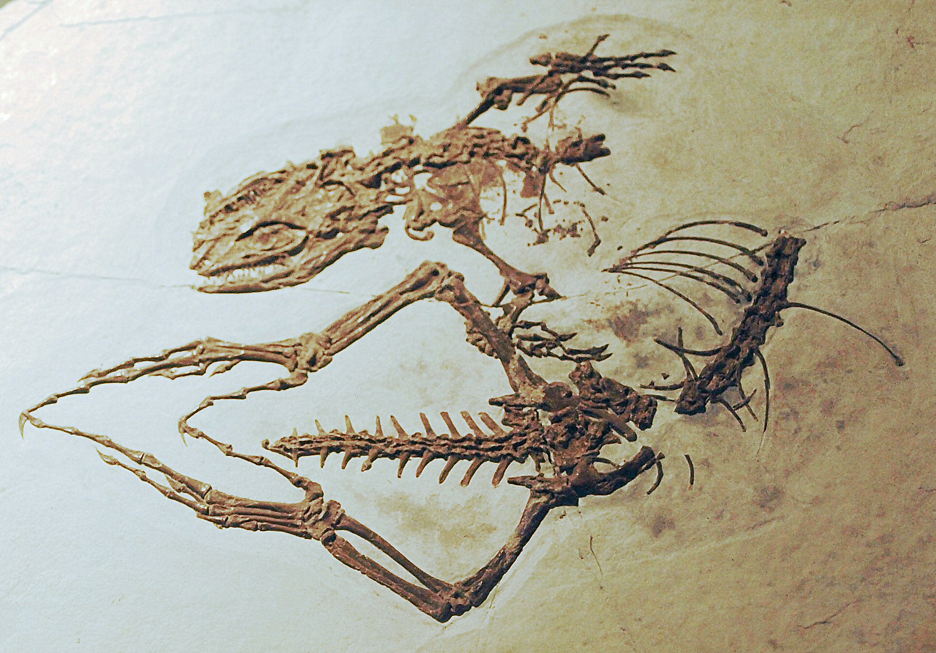 A specimen of Dalinghesaurus longidigitus, on display at the Paleozoological Museum of China.